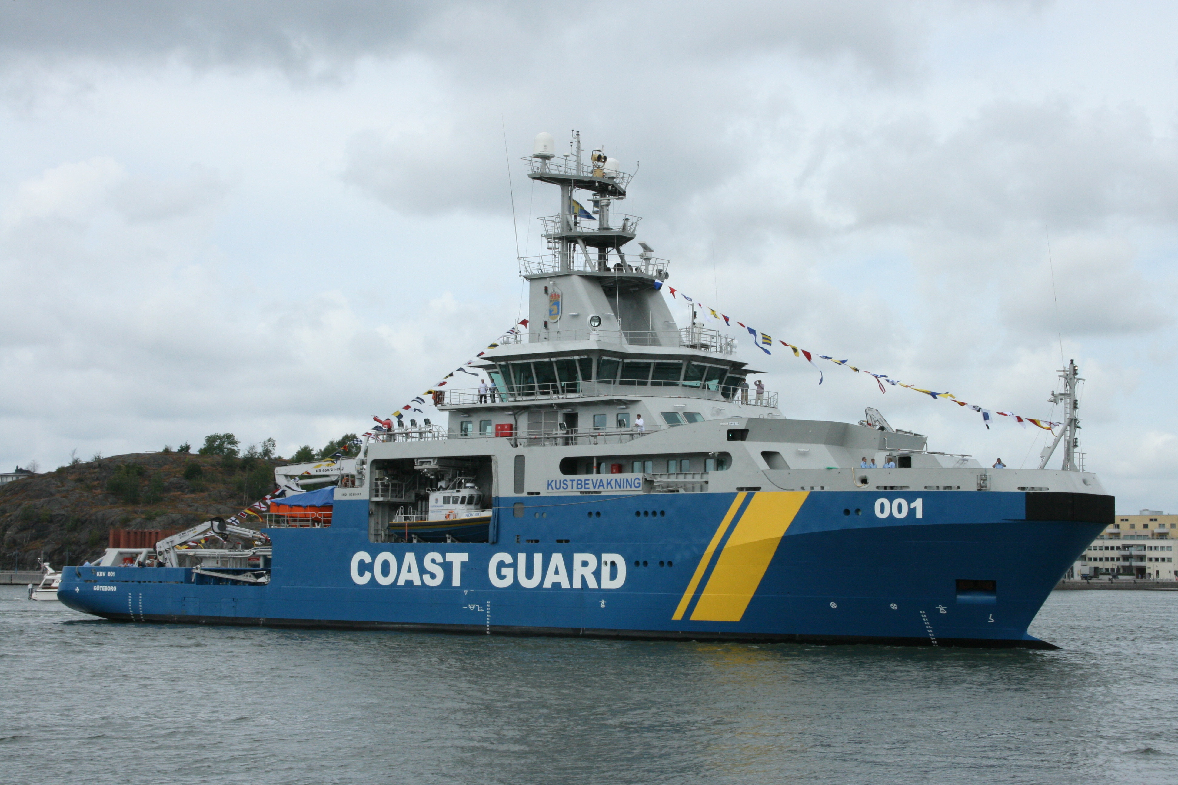 Multi purpose vessel KBV 001 arrives to Gothenburg